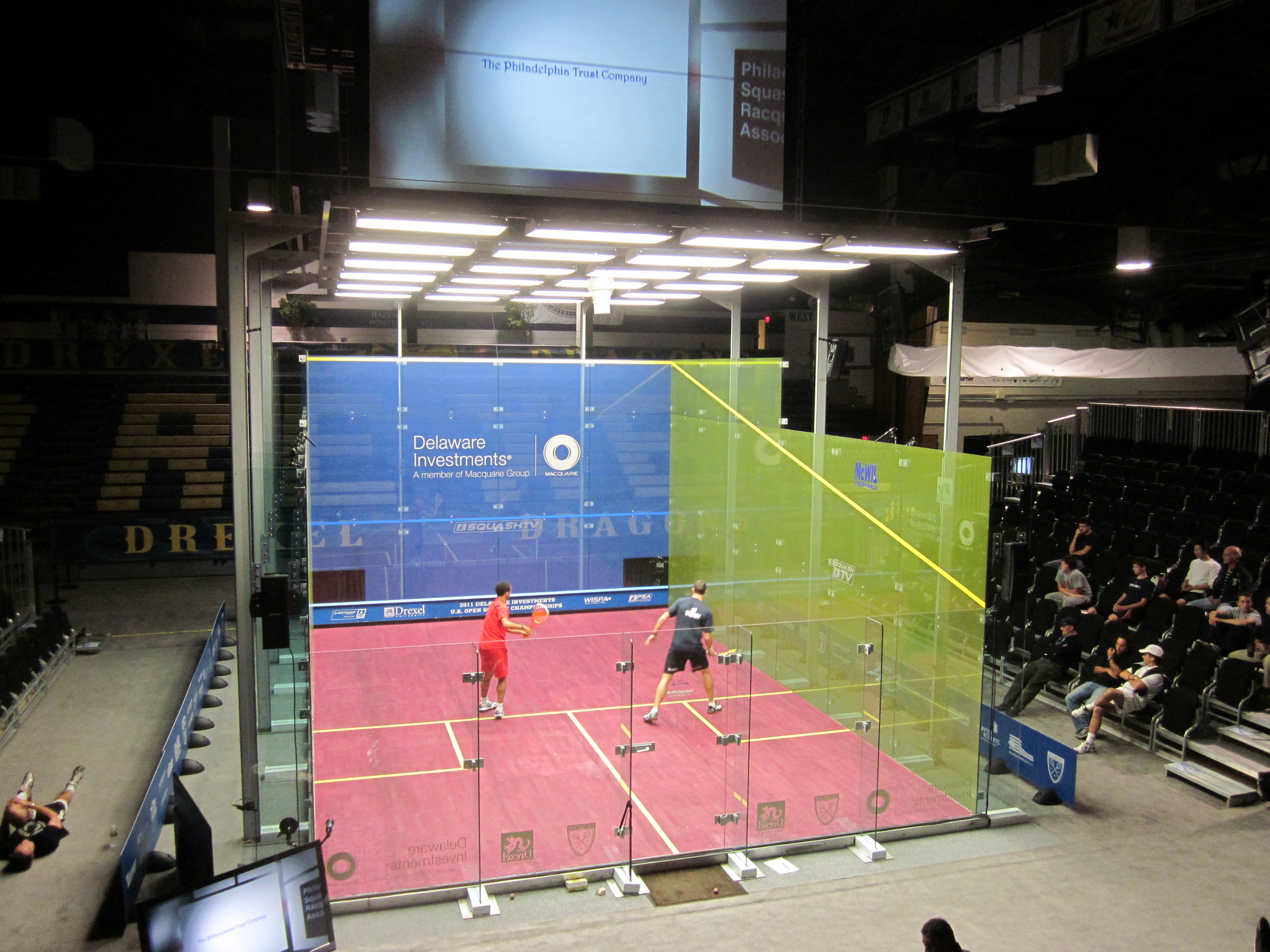 The glass show court used at the 2011 Delaware Investments US Open Squash Championships hosted by Drexel University